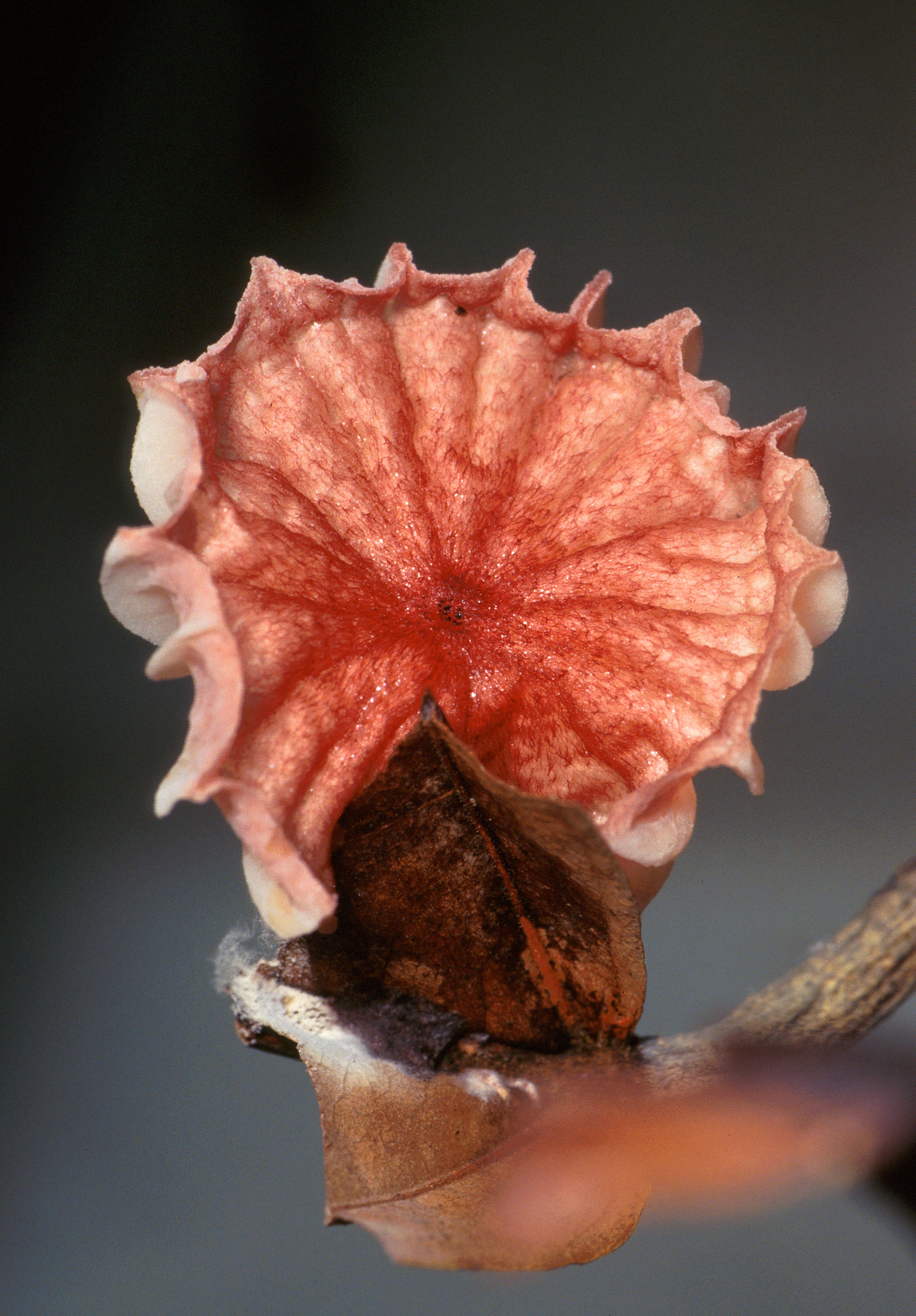 Crinipellis perniciosa mushroom from Image Number K8626-1 Spores released from the fan-shaped basidiocarp of this inch-wide Crinipellis perniciosa mushroom can infect cacao trees and drastically reduce yields of the beans from which cocoa and chocolate products are made. Photo Scott Bauer.